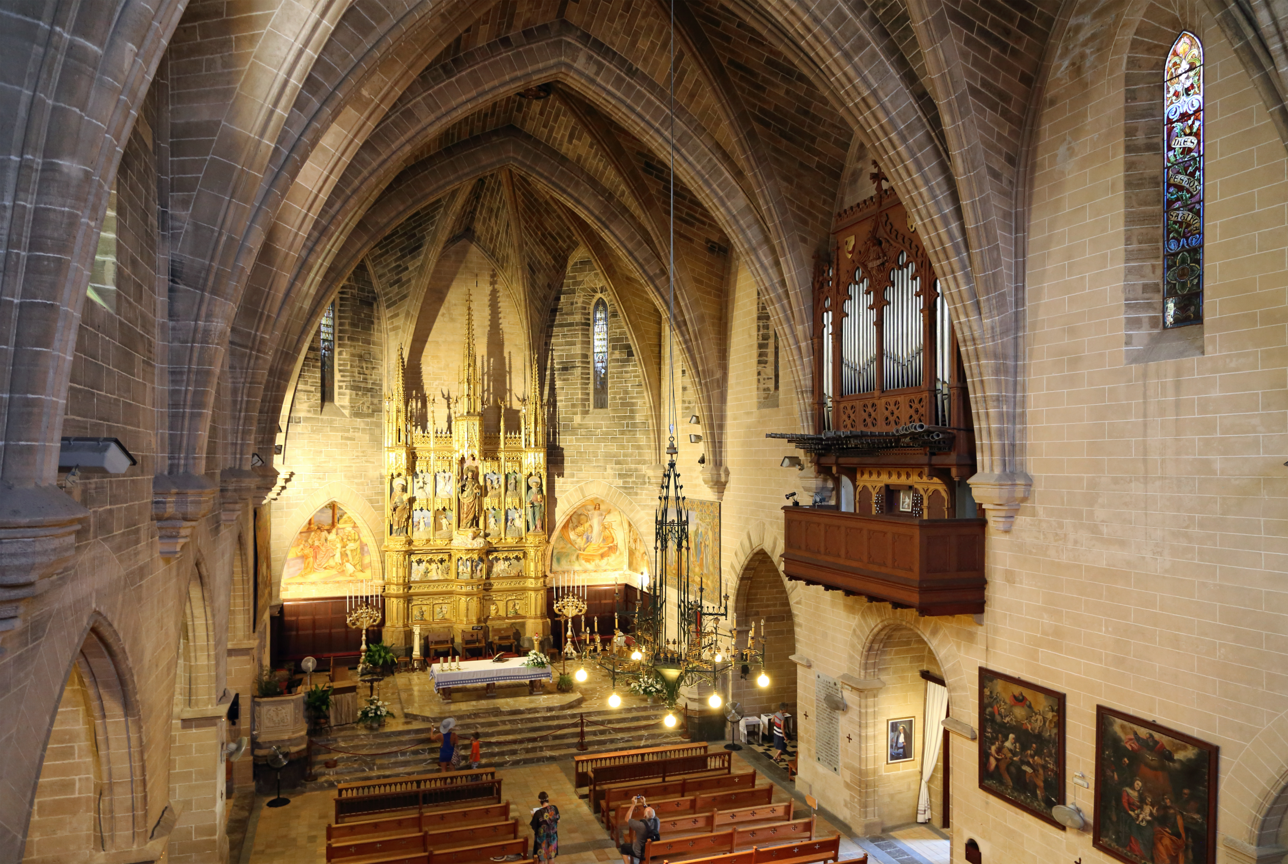 Alcúdia (Majorca, Spain): St James's church (Sant Jaume) - interior